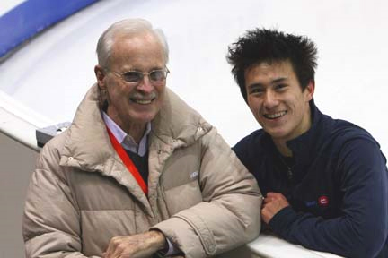 Patrick Chan (CAN) with his coach Don Laws by the boards at the 2007-2008 Grand Prix Final.